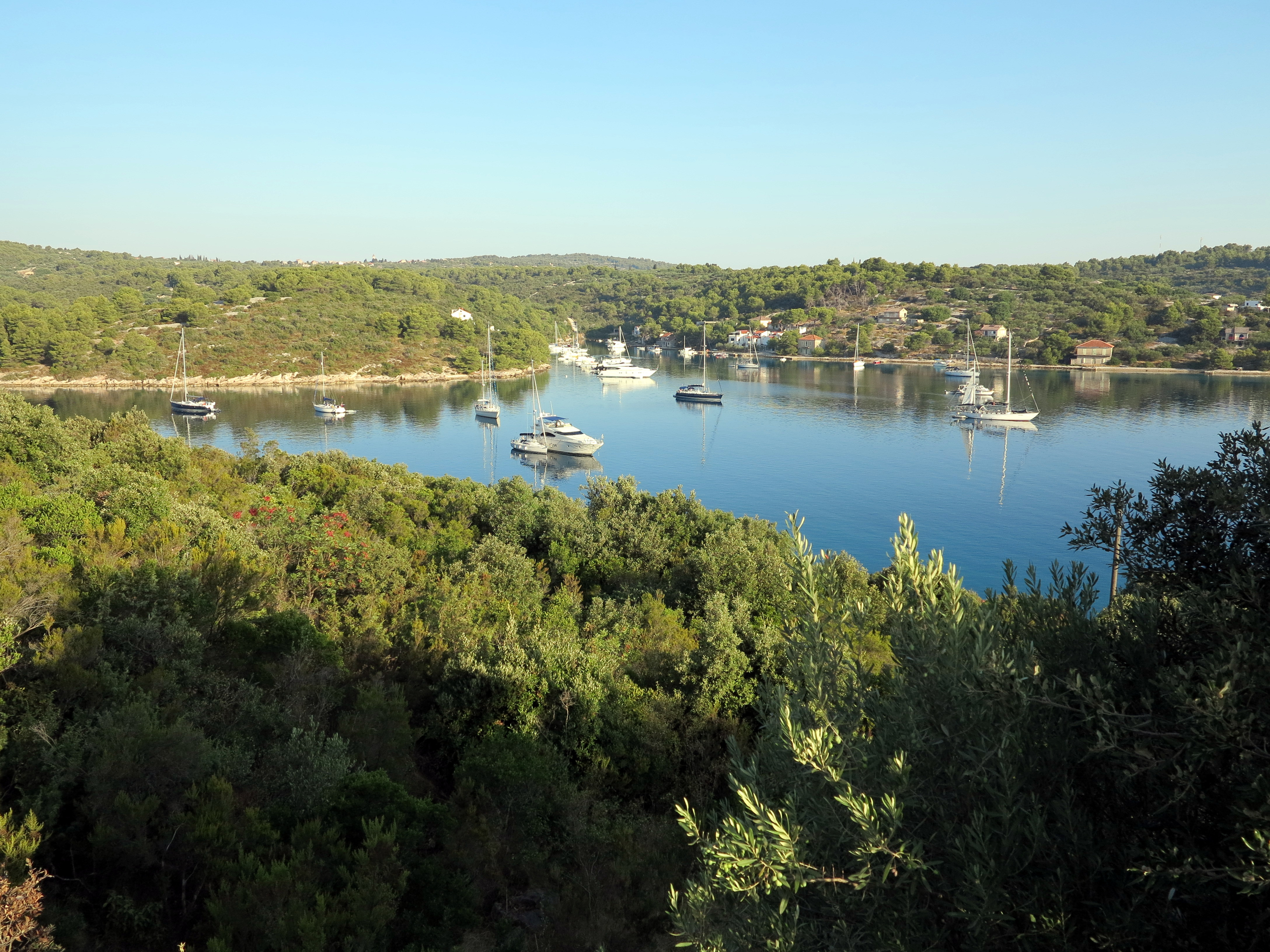 Bay Podkamenica or Pod Kamenica in Nečujam, island of Šolta / Croatia / Adriatic Sea.